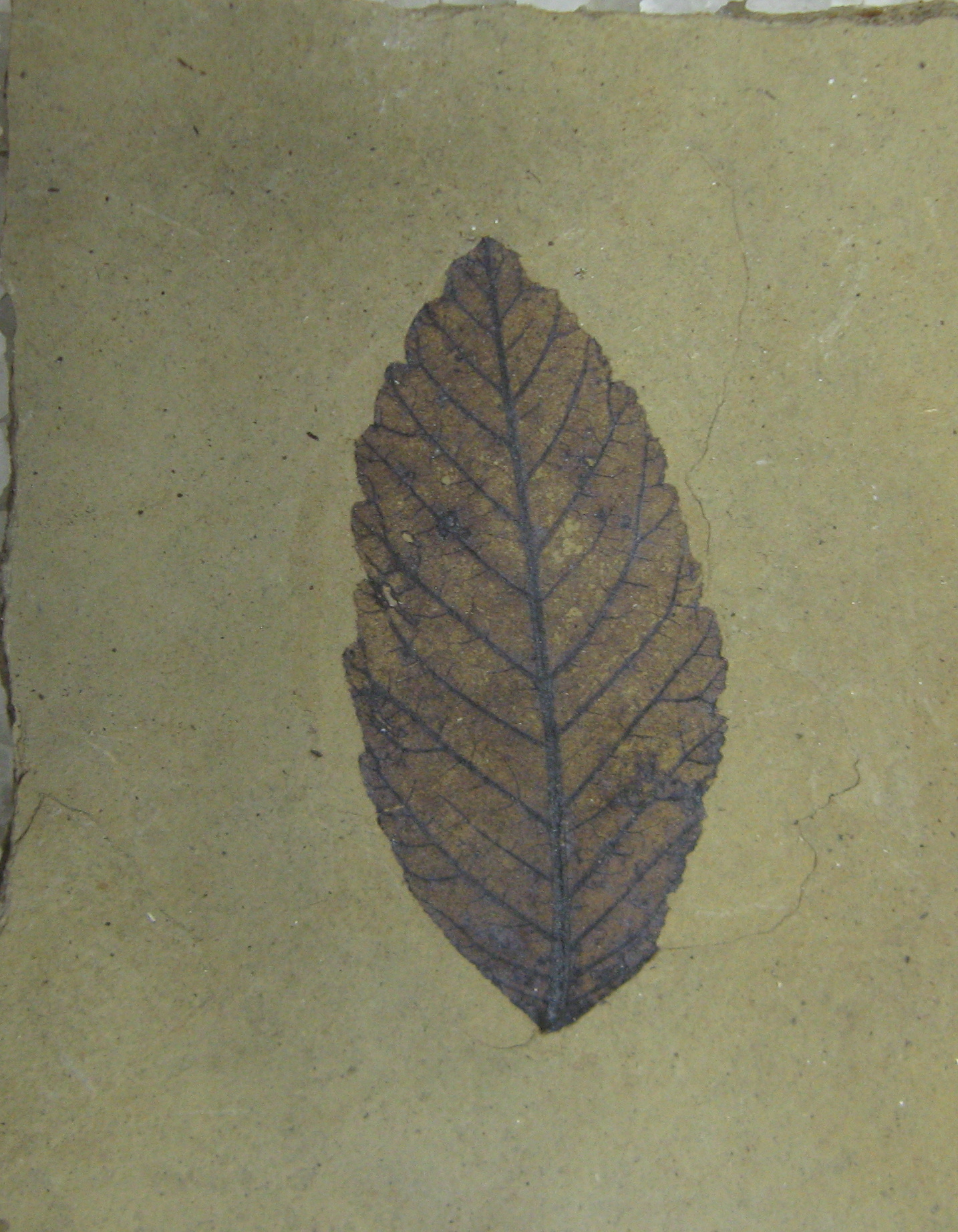 An approximately 4 cm (1.6 in) tall Rhus boothillensis leaflet. Ypresian, Latest Early Eocene; Tom Thumb Tuff member, Klondike Mountain Formation, Republic, Washington, U.S.A. Stonerose Interpretive Center, Republic, Ferry County, Washington, U.S.A. Collection number SR 87-61-16.